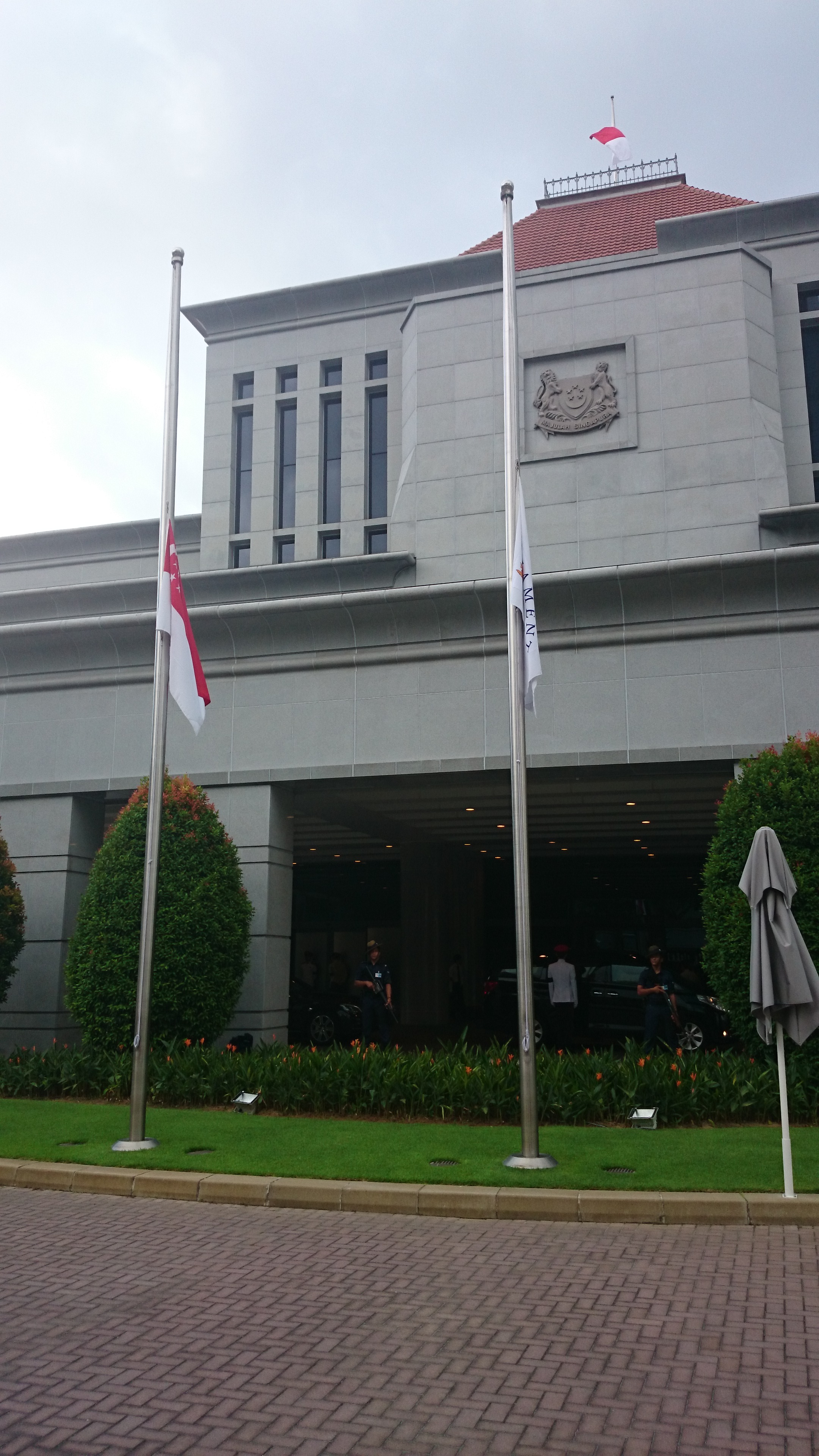 The National Flag of Singapore and a flag of the Parliament of Singapore flying at half-mast at Parliament House as the body of the former Prime Minister of Singapore Lee Kuan Yew lay in state there from 25 to 28 March 2015.